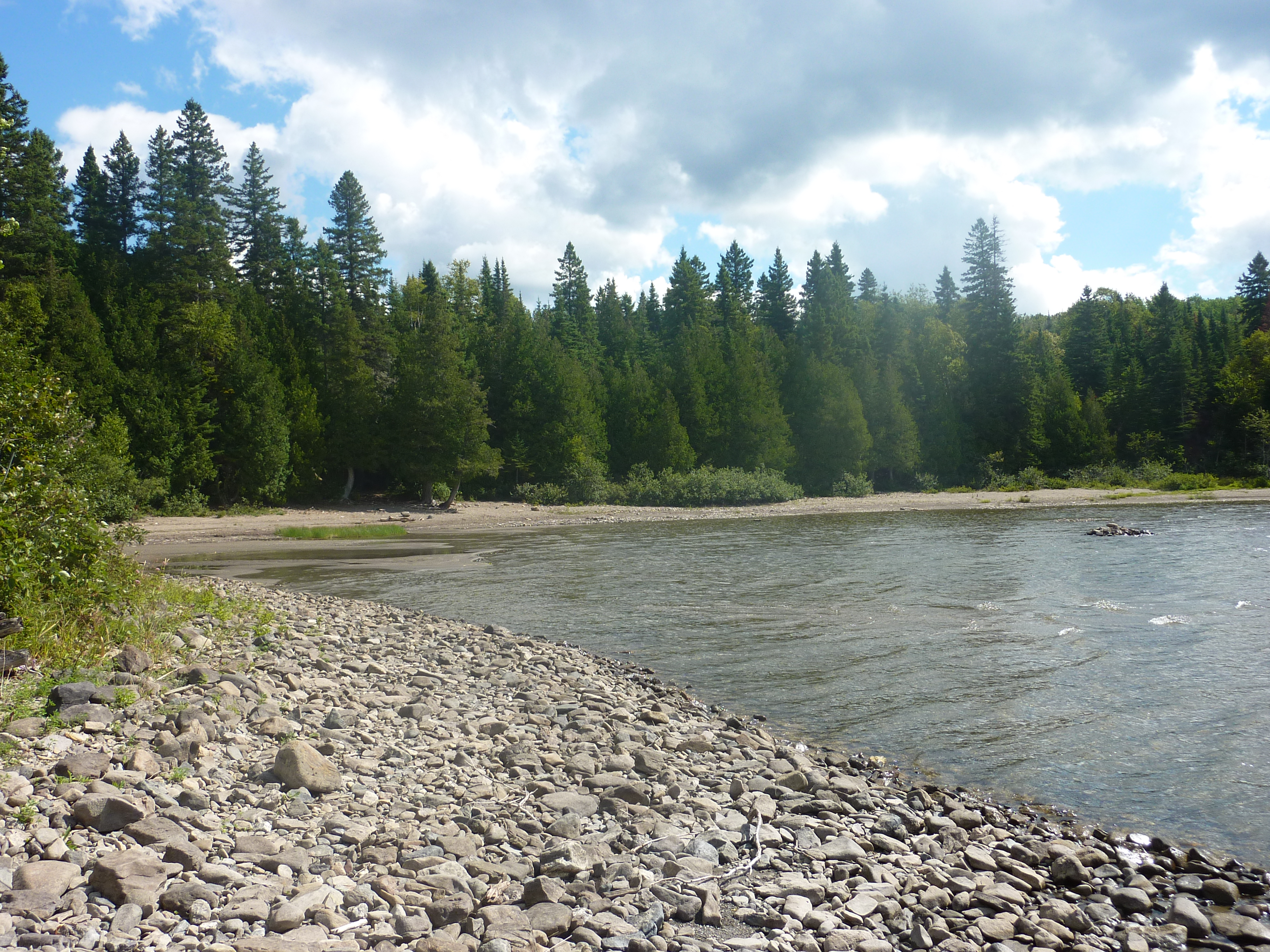 Chalet à Soucy Beach in Seigneurie du Lac-Matapédia on Matapédia Lake